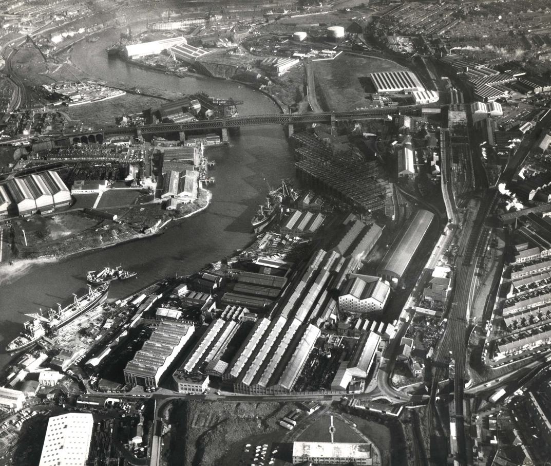 William Doxford & Sons shipyard and engine works take centre stage in this image. The Queen Alexandra Bridge and Deptford, with the distinctive gasworks, can be seen above. William Pickersgill & Sons yard is on the north bank of the River Wear. Reference: TWAS: DT.TUR.7.6 (Copyright) We're happy for you to share this digital image within the spirit of The Commons. Please cite 'Tyne & Wear Archives & Museums' when reusing. Certain restrictions on high quality reproductions and commercial use of the original physical version apply though; if you're unsure please . To purchase a hi-res copy please quoting the title and reference number